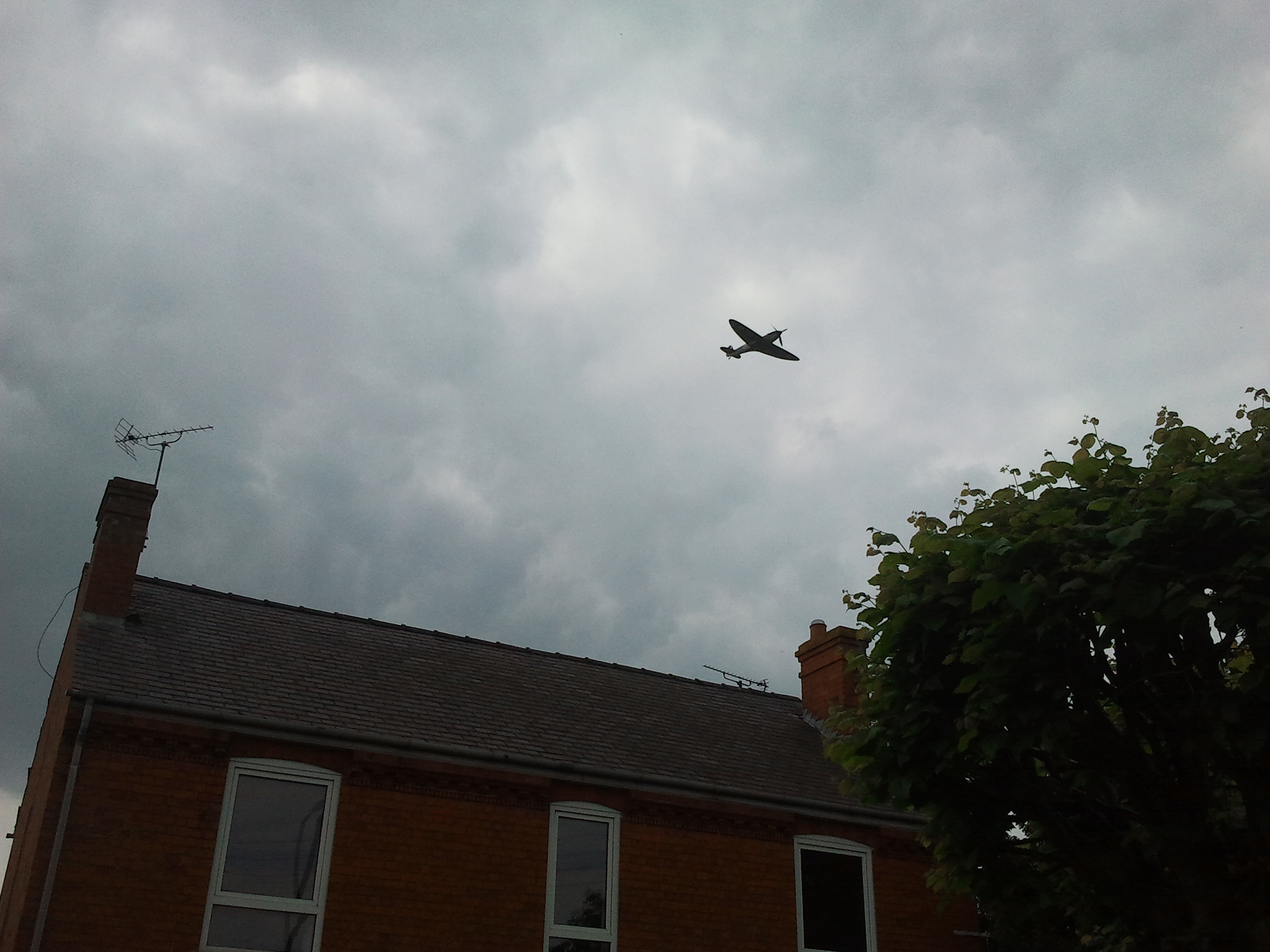 Photo of a bomber flying over the parish during the 2014 Skellingthorpe fete.